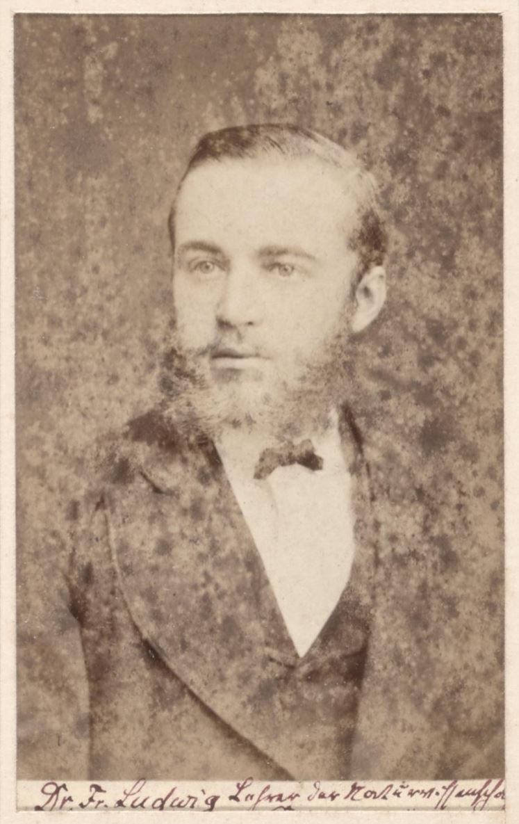 Plate 09 Photograph album of German and Austrian scientists. Franz Eilh. Schulze, Graz; Oscar Schmidt, Strassburg (Strasbourg); Dr. Otto Zacharias, Dessau; Bartholomaeus von Carneri, Wildhaus/Steiermark (Styria); Dr. Fr. Ludwig, Greiz; Stephan Milow, Graz; Conrad Deubler, Goisern/Steiermark (Styria); Dr. Wilhelm Wurm, Bad Teinach; Emerich Du Mont, Graz.